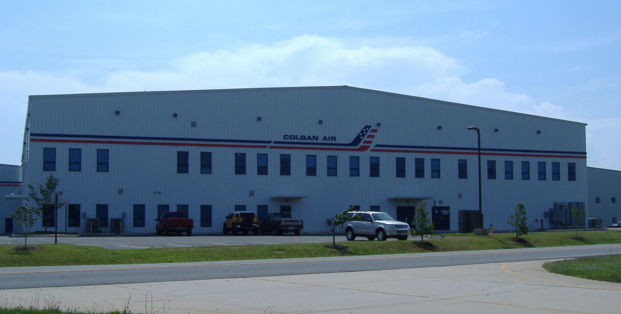 Colgan Air building at Manassas Regional Airport. 10667 Wakeman Drive, Manassas, Virginia USA.